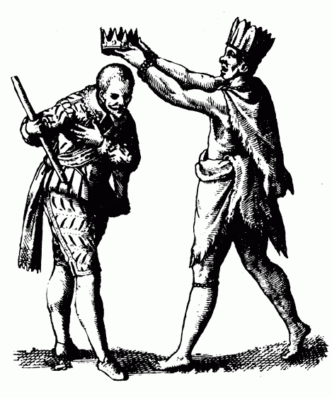 "The Indians of California greet Sir Category:Francis Drake" Engraving of the "legend" of the Indians of California meeting Sir Francis Drake , Theory is that it occured at Tomales Bay, Drake's "New Albion", on the northern California coast in 1579. It would have preceded Spanish colonial exploration of Alta California.